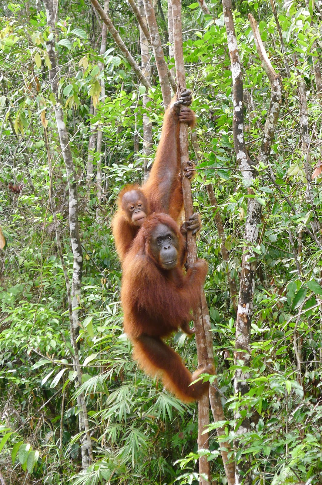 super image